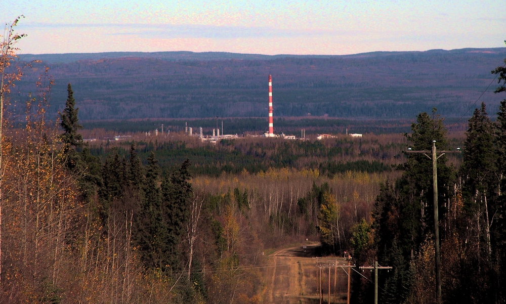 Woods and gas plant in Woodsland County, Alberta, Canada